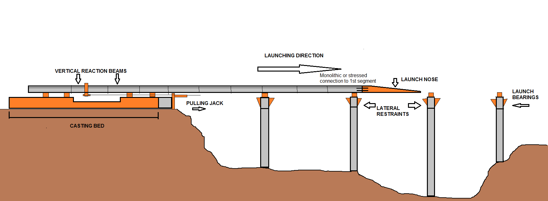 Incremental launch is a bridge launch process